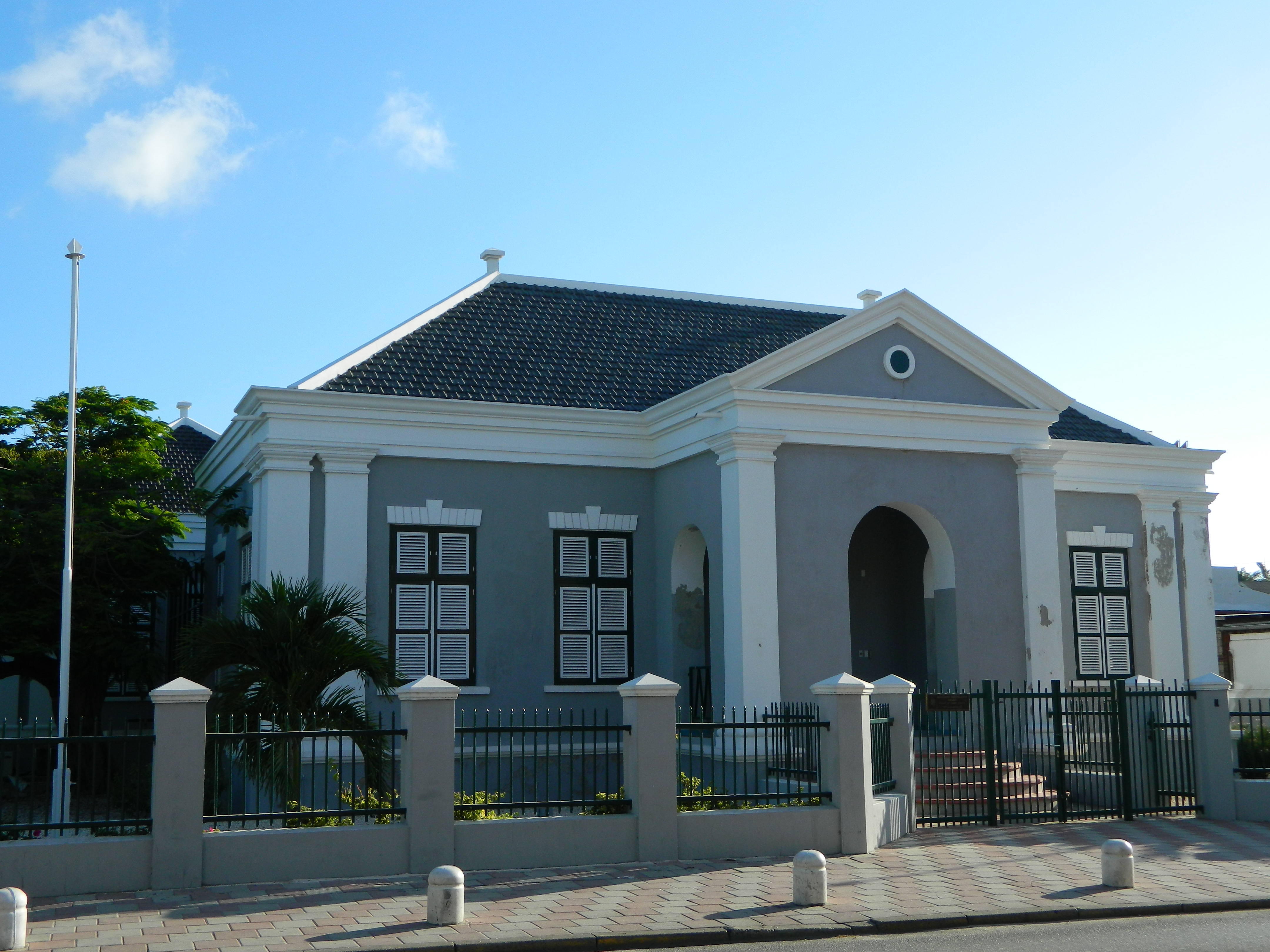 School 1888, -frontside-, Oranjestad, ARUBA